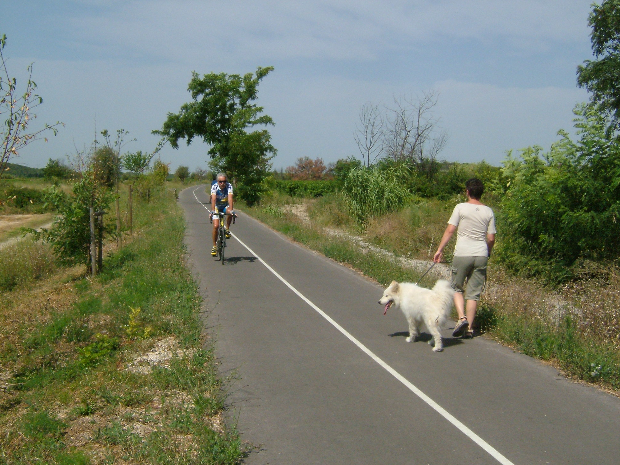 The Voie Verte de La Vaunage as it passes through the near 30111 Congénies. Pulling at the lead is a peach eared Samoyed.